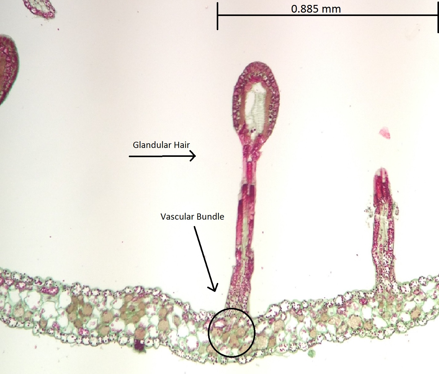 Microscopic image of the extension used by the Drosera plants to trap their prey